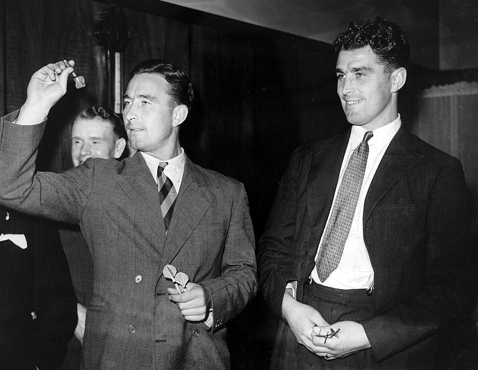 Sport, Football/Cricket, London, England, 19th September 1947, Dennis Compton (left) watched by his brother Leslie playing darts for a charity at a London Hotel